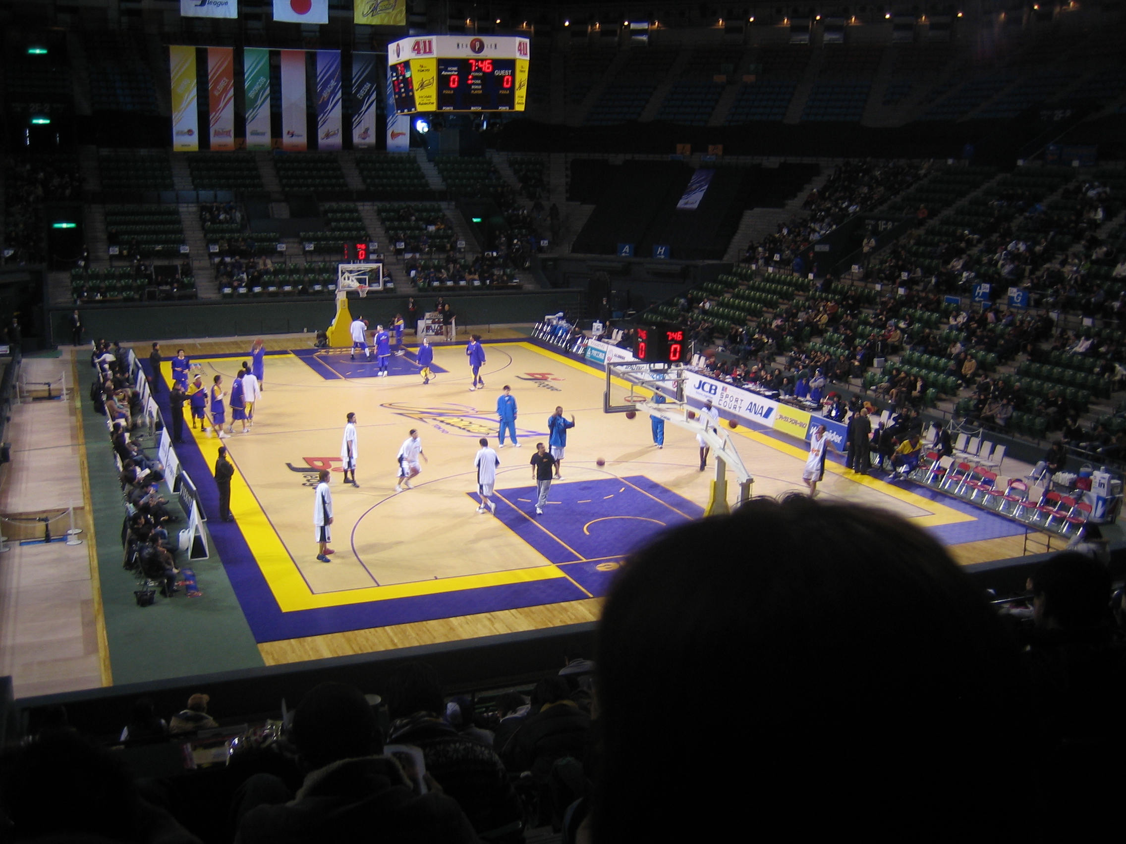 Apche vs. Oita5